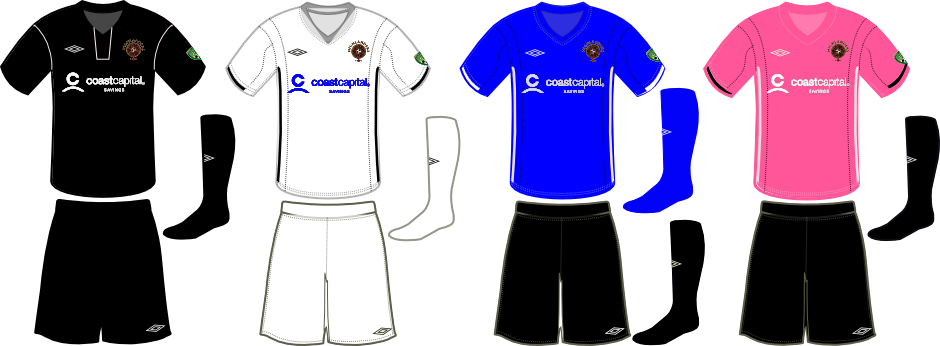 Highlanders kits, 2009-2013